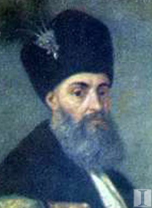 Grigore II Ghica was Voivode (Prince) of Moldavia at four different intervals - from October 1726 to April 16, 1733, from November 27, 1735 to 14 September 1739, from October 1739 to September 1741 and from May 1747 to April 1748[1] - and twice Voivode (Prince) of Wallachia - April 16, 1733 - November 27, 1735 and April 1748 to September 3, 1752.[2]